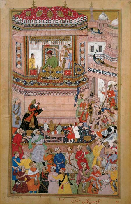 Naubat Khan